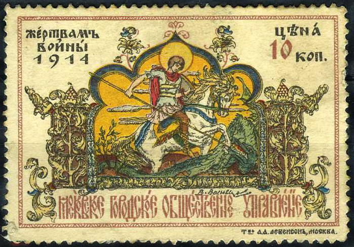 Revenue stamp of Russia, voluntary collection for victims of World War I, issued by the Moscow City Public Management. Designed by Victor M. Vasnetsov.